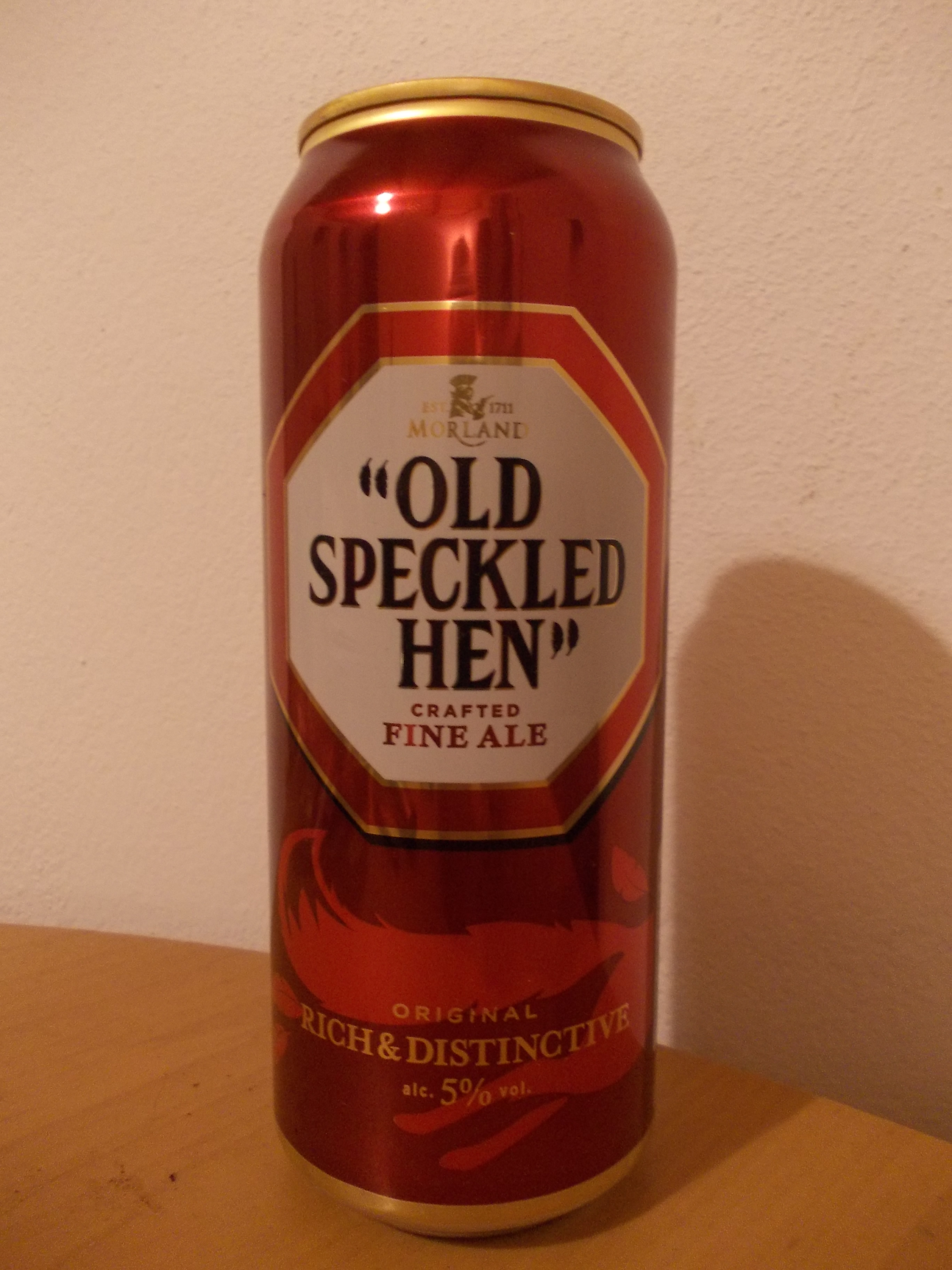 500 ml (2.5 UK units) can of Morland's Old Speckled Hen; alc. 5% vol.